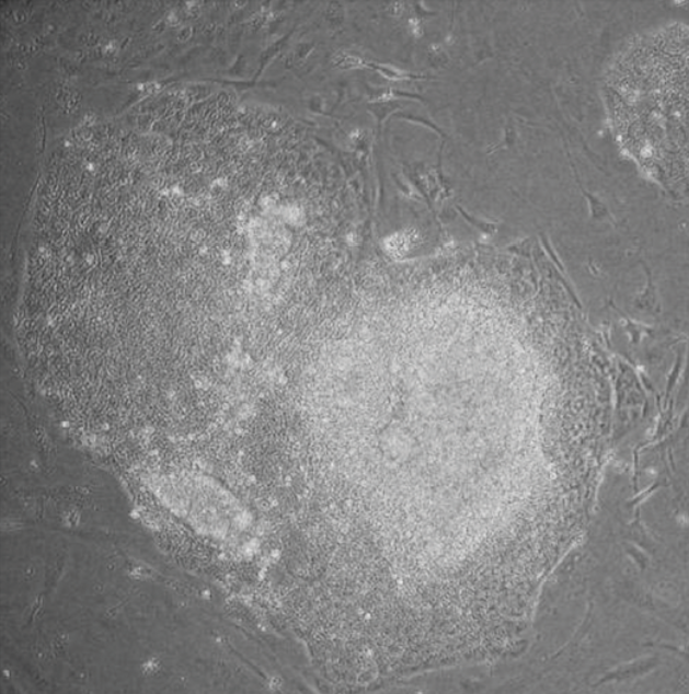 Human iPS cells colonies. The spindle-shaped cells in the background are mouse fibroblast cells. Only those cells consisting of the center colony are human iPS cells. This photo is from open-accessed journal PLOS ONE.